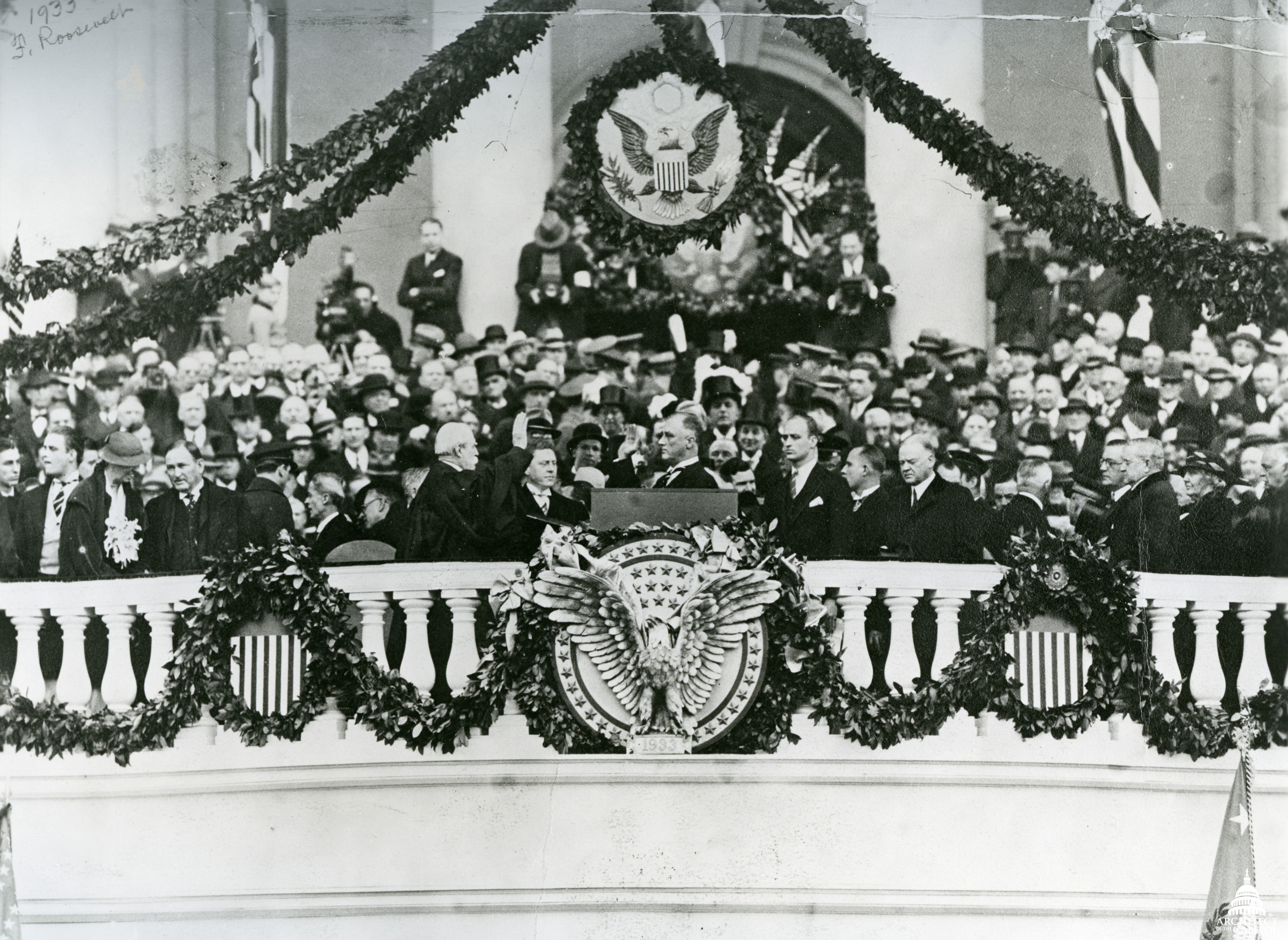 This inauguration ceremony for Franklin D. Roosevelt on March 4, 1933, was the last ceremony to be held in March. All subsequent inaugurals have been held in January. This official Architect of the Capitol photograph is being made available for educational, scholarly, news or personal purposes (not advertising or any other commercial use). When any of these images is used the photographic credit line should read “Architect of the Capitol.” These images may not be used in any way that would imply endorsement by the Architect of the Capitol or the United States Congress of a product, service or point of view. For more information visit